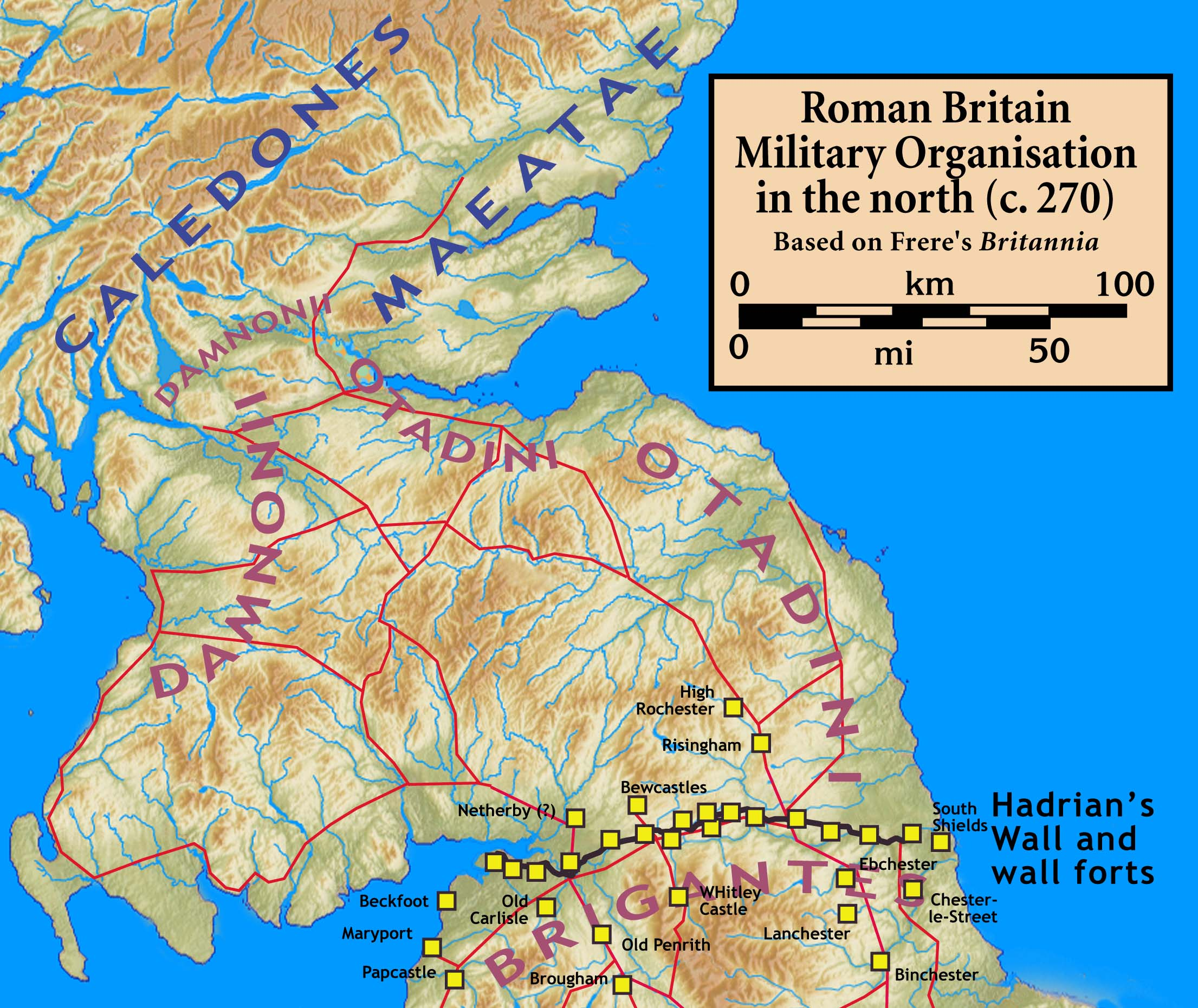 Roman Scotland, Military Organisation (270)